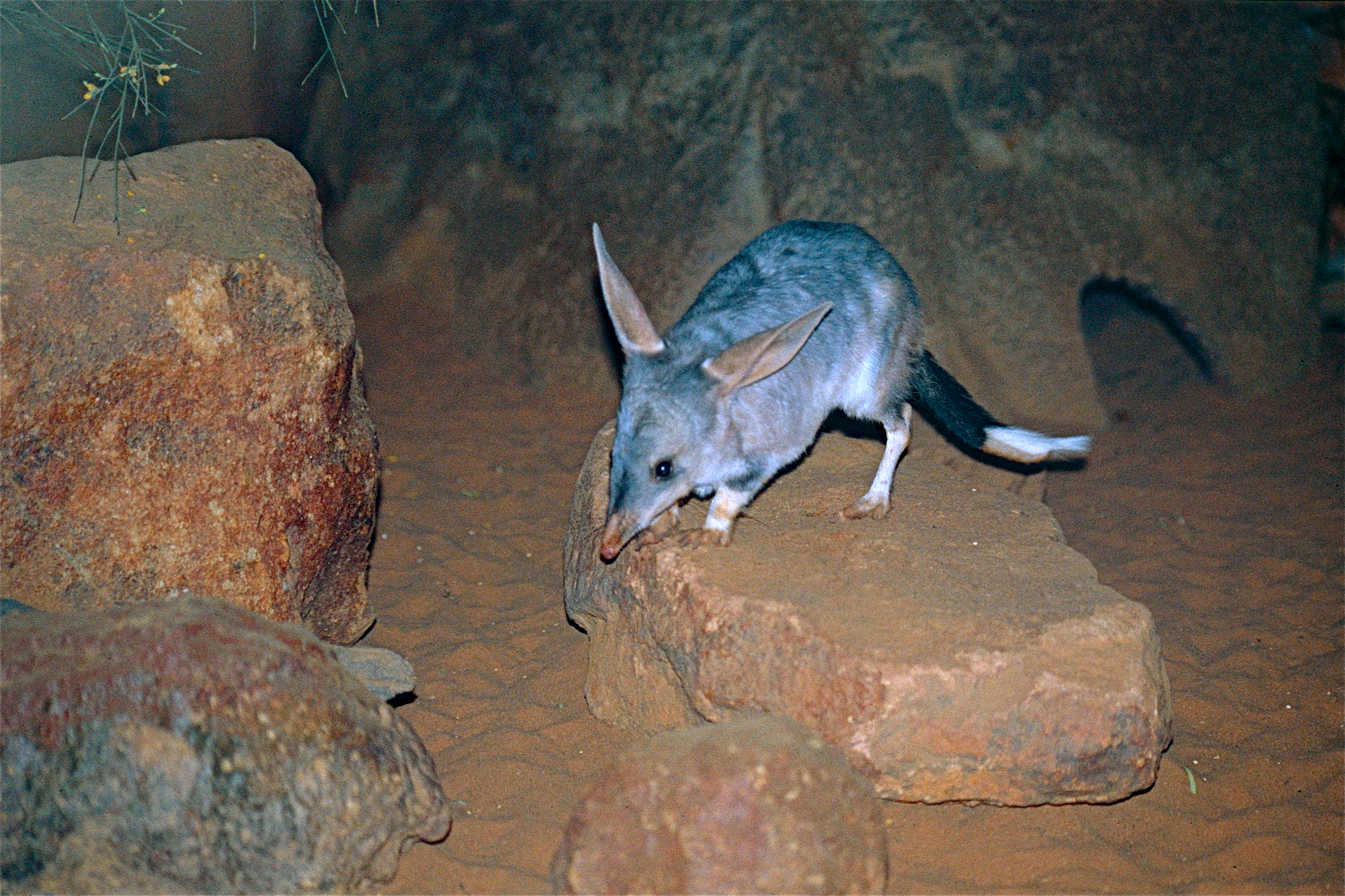 David Fleay Wildlife Park, Burleigh Heads, Gold Coast, South Queensland, AUSTRALIA Scanned Slide from Dec 2000